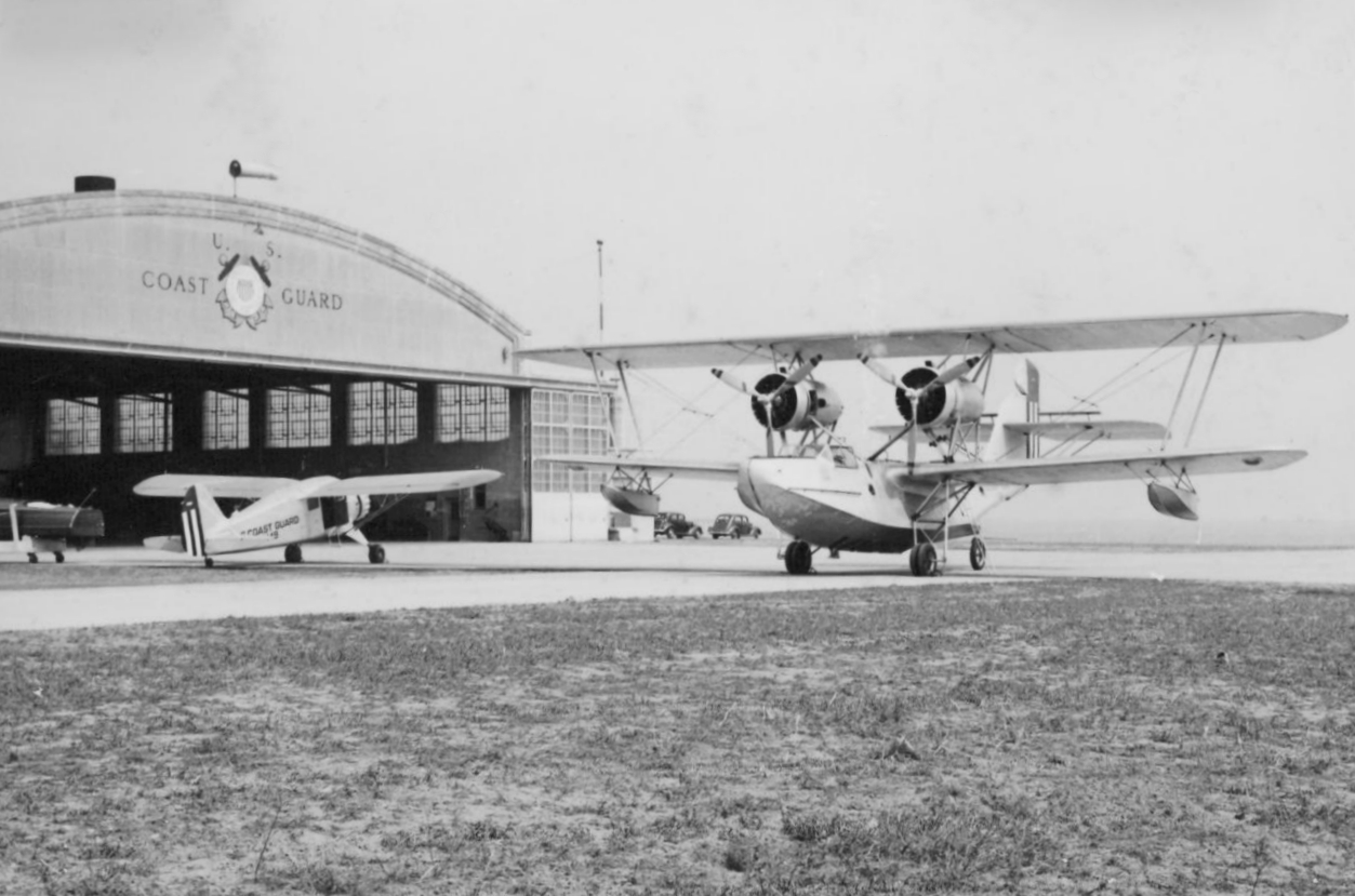 A U.S. Goast Guard Stinson RQ-1 Reliant aircraft and Hall PH flying boat at Coast Guard Air Station (CGAS) Brooklyn, Floyd Bennet Field, New York, 1938.